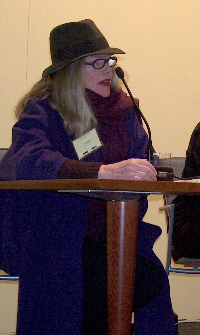 Anja Angel, Finnish crime writer, at the Helsinki Book Fair in 2004